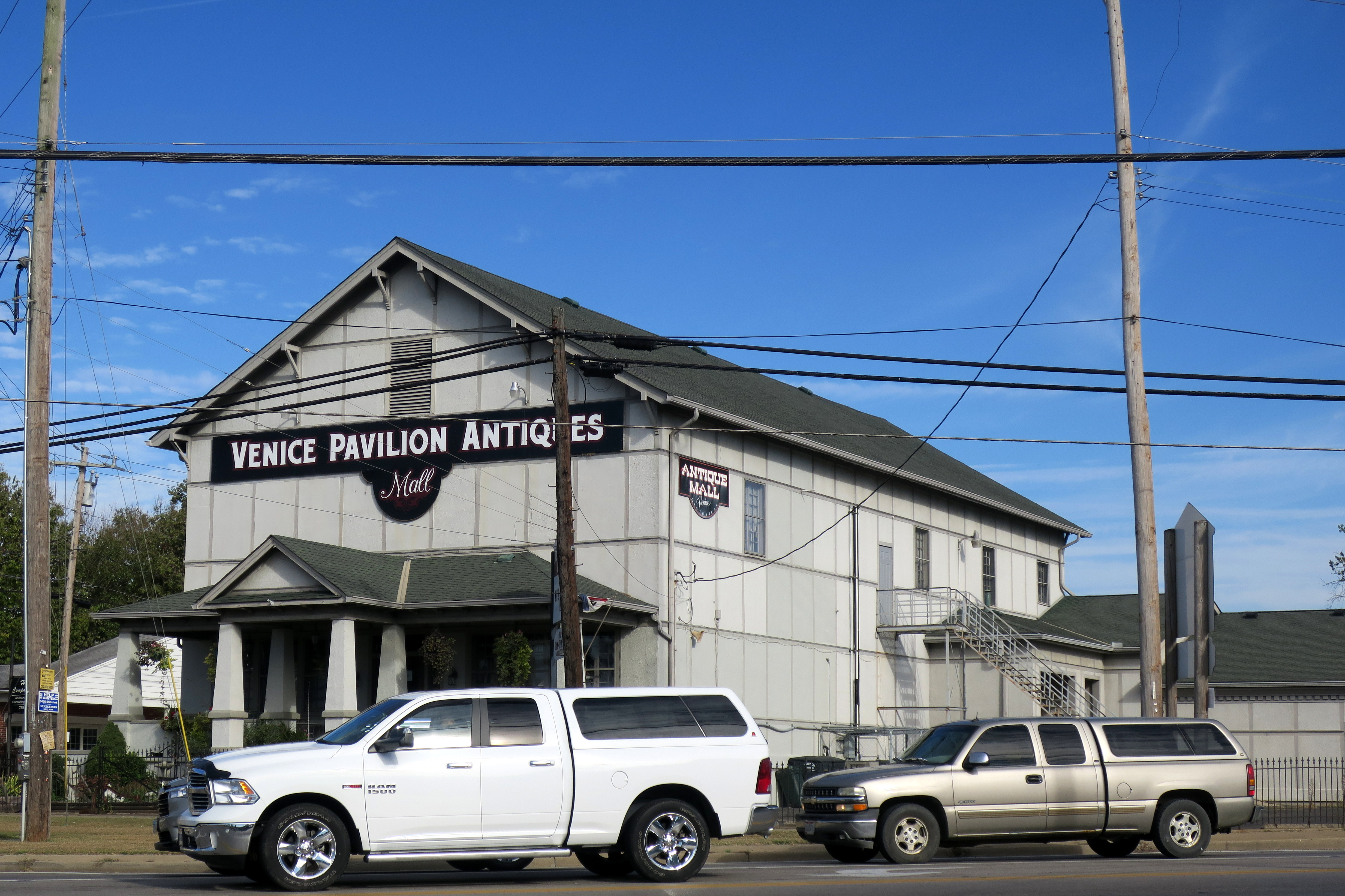 Venice Pavilion Antiques (Ross, Ohio)